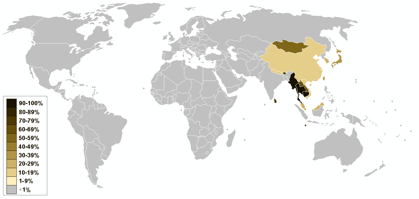 Map of the distribution of Buddhists in the world.